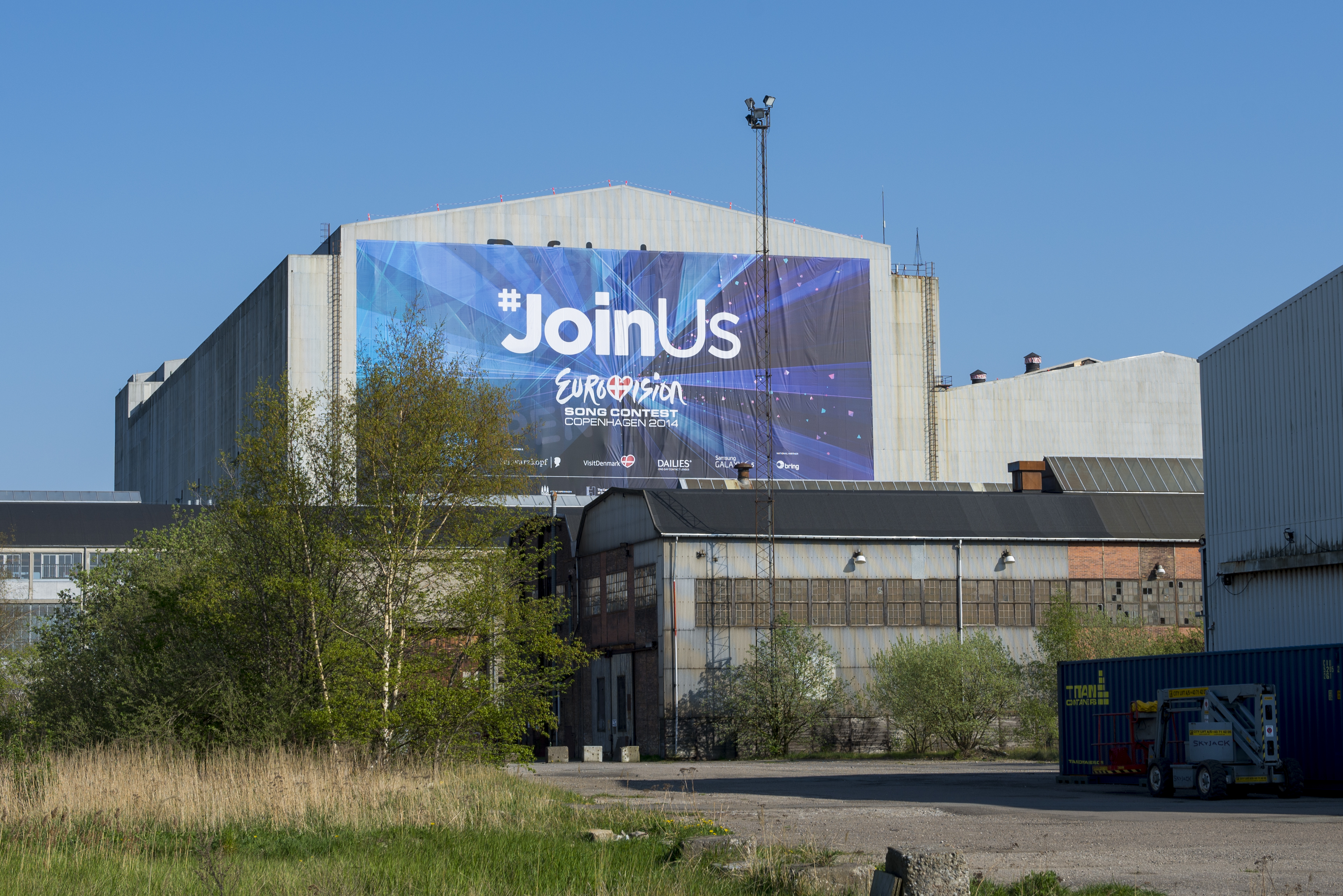 B&W Hallerne right before the Eurovision Song Contest 2014